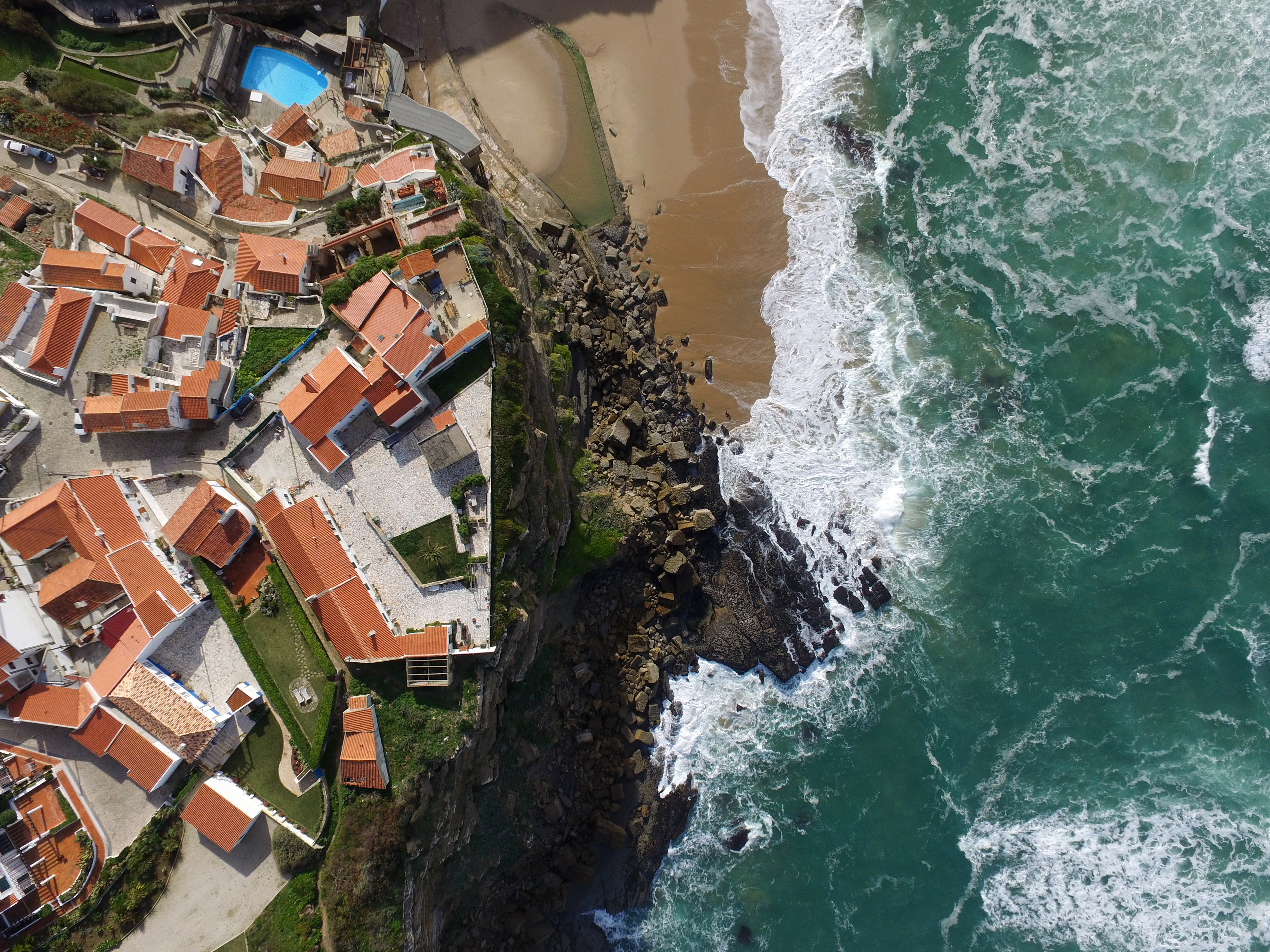 Azenhas do Mar